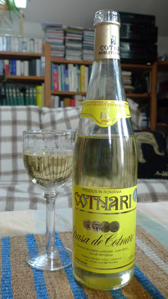 Bottle an glass of Grasa de Cotnari (Romanian sweet wine)